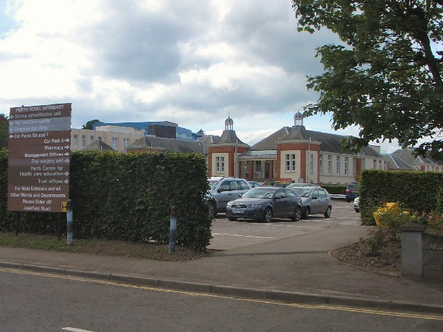 Perth Royal Infirmary. This is the Taymount Terrace entrance to Perth Royal Infirmary.